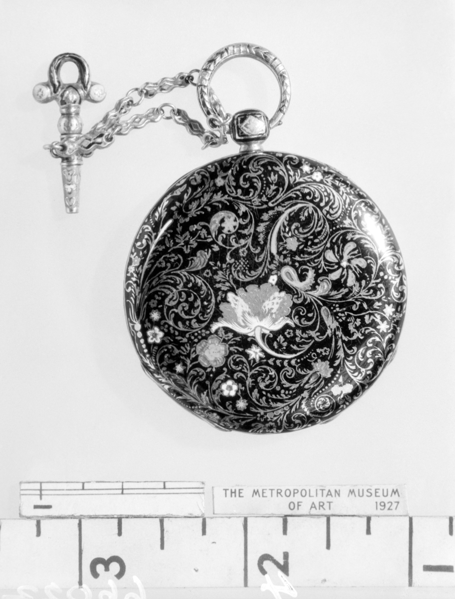 Swiss, Geneva; Watch; Horology